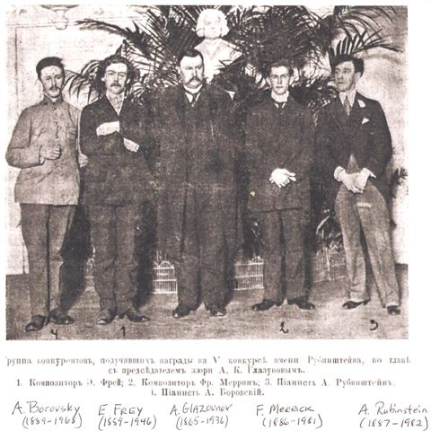 Participants in the 1910 Anton Rubinstein Piano Competition in St. Petersburg, Russia. Left to right, Alexander Borovsky (1889–1968), Emil Frey (1889–1946), A. Glazovnov (1865–1936), Frank Merrick (1886–1981), Arthur Rubinstein (1887–1982)